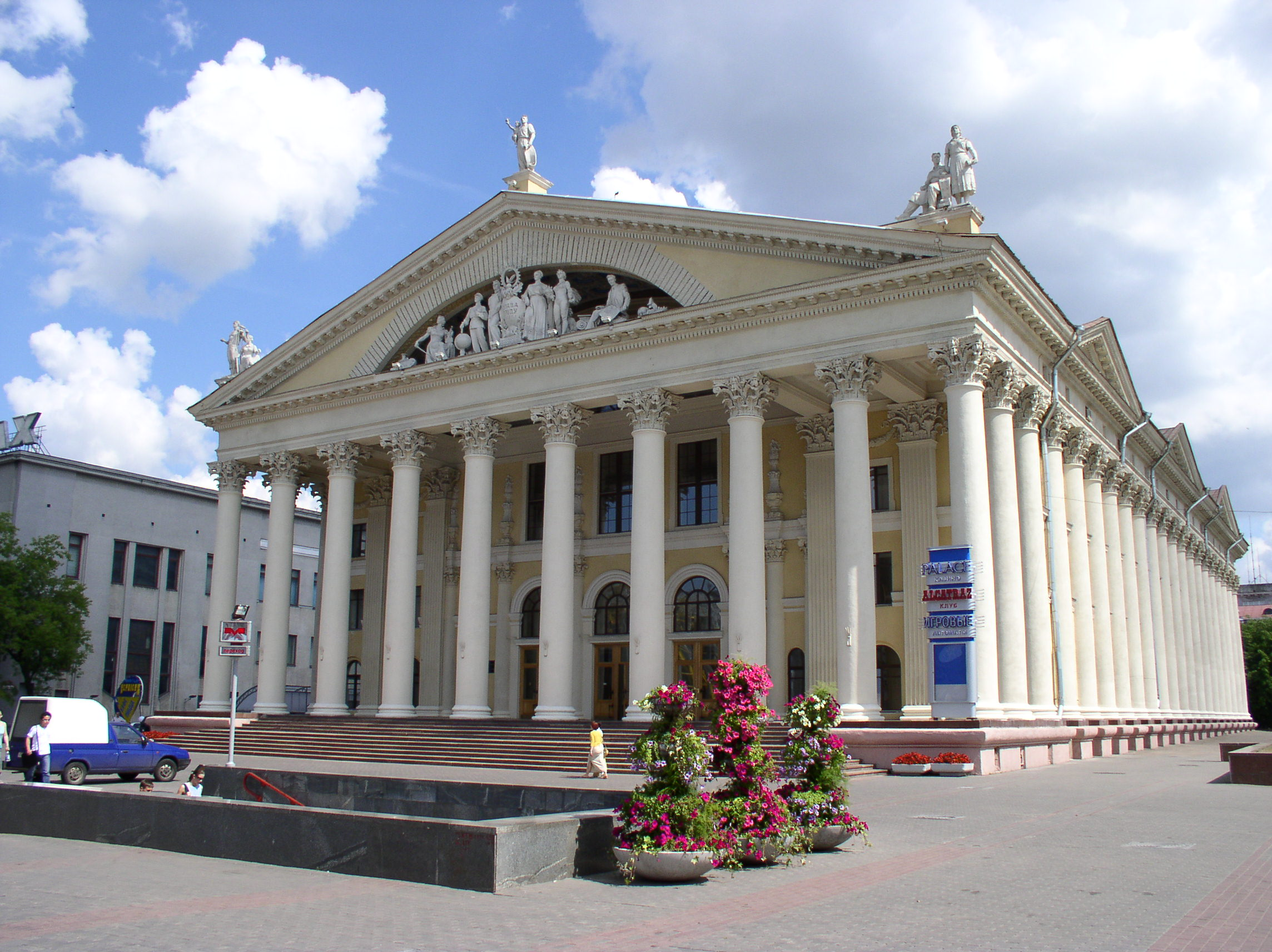 Republican Trade Union Palace of Culture, Minsk, Belarus.